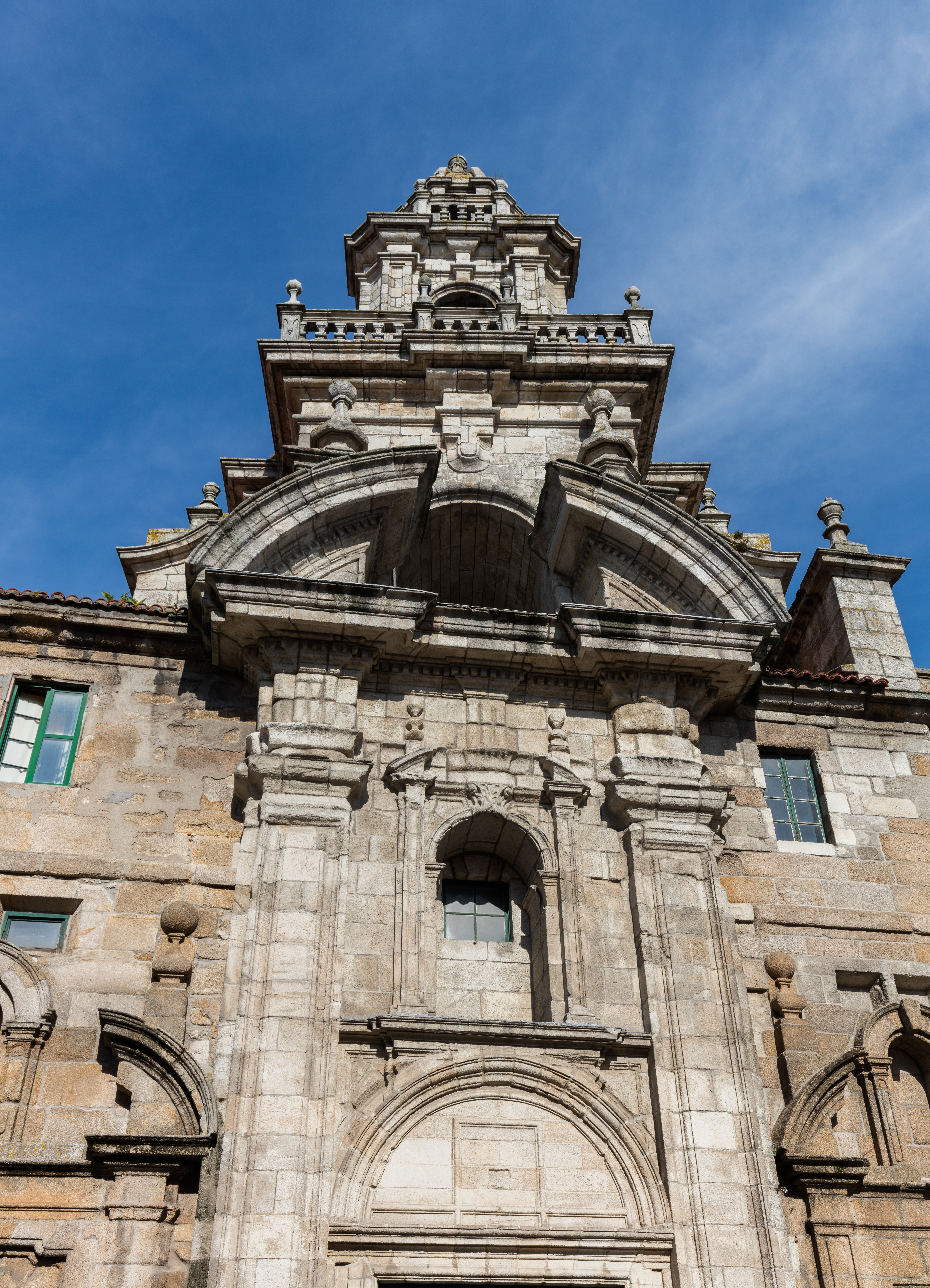 St Domingo Monastery, La Coruña, Spain